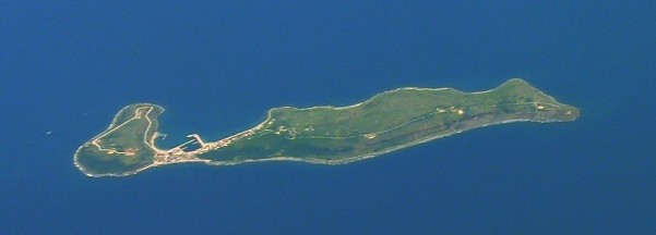 Hujing Island is an island of the Penghu archipelago, which is part of the city of Magong. It is located at a distance about seven nautical miles (8 mi, 13 km) southwest of Magong. Hujing Island are named according to a legend that there was once a tiger crouching in a dry cave at the southeast of the island.